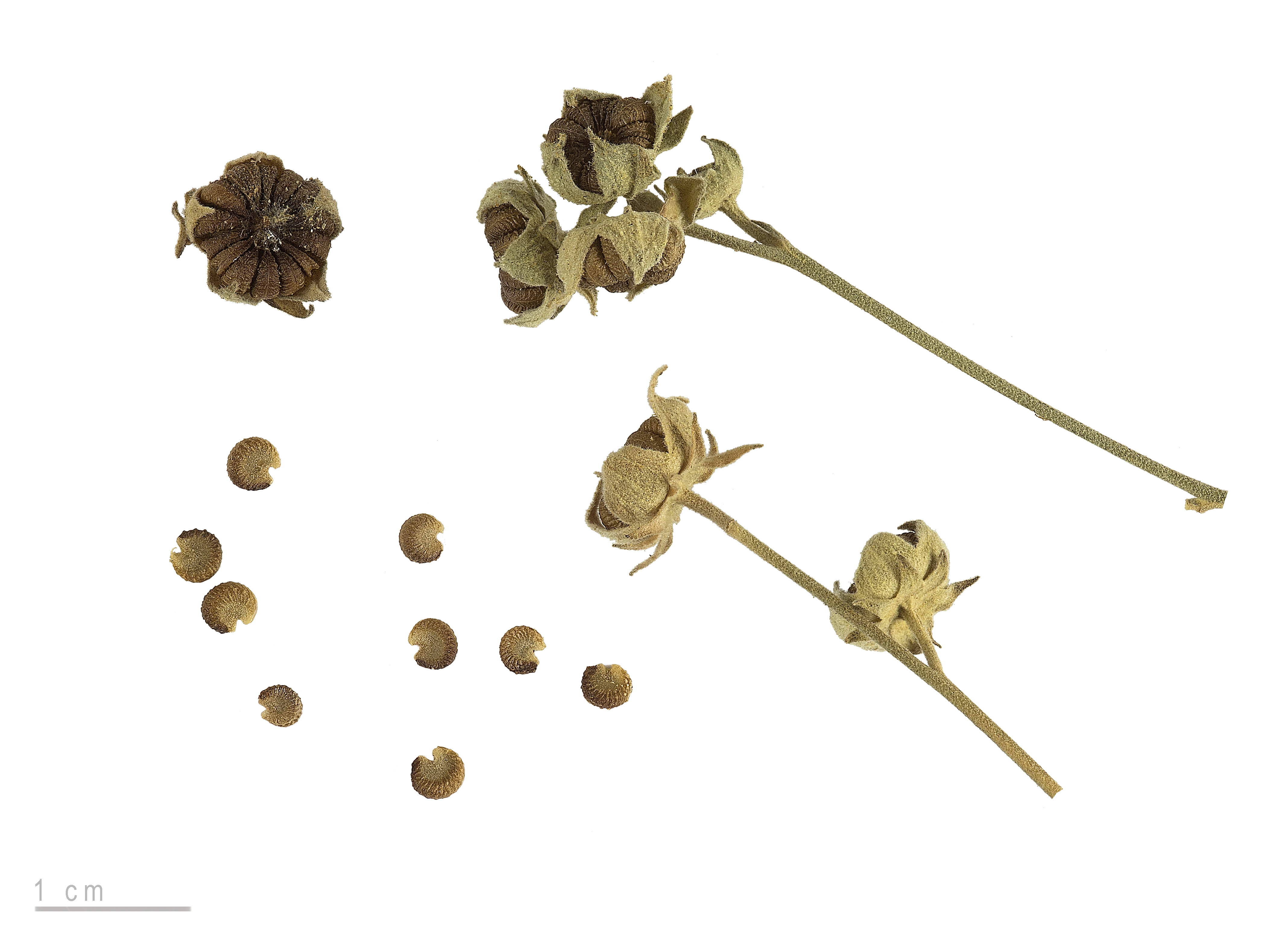 Palm-leaf Marshmallow, fruits and seeds